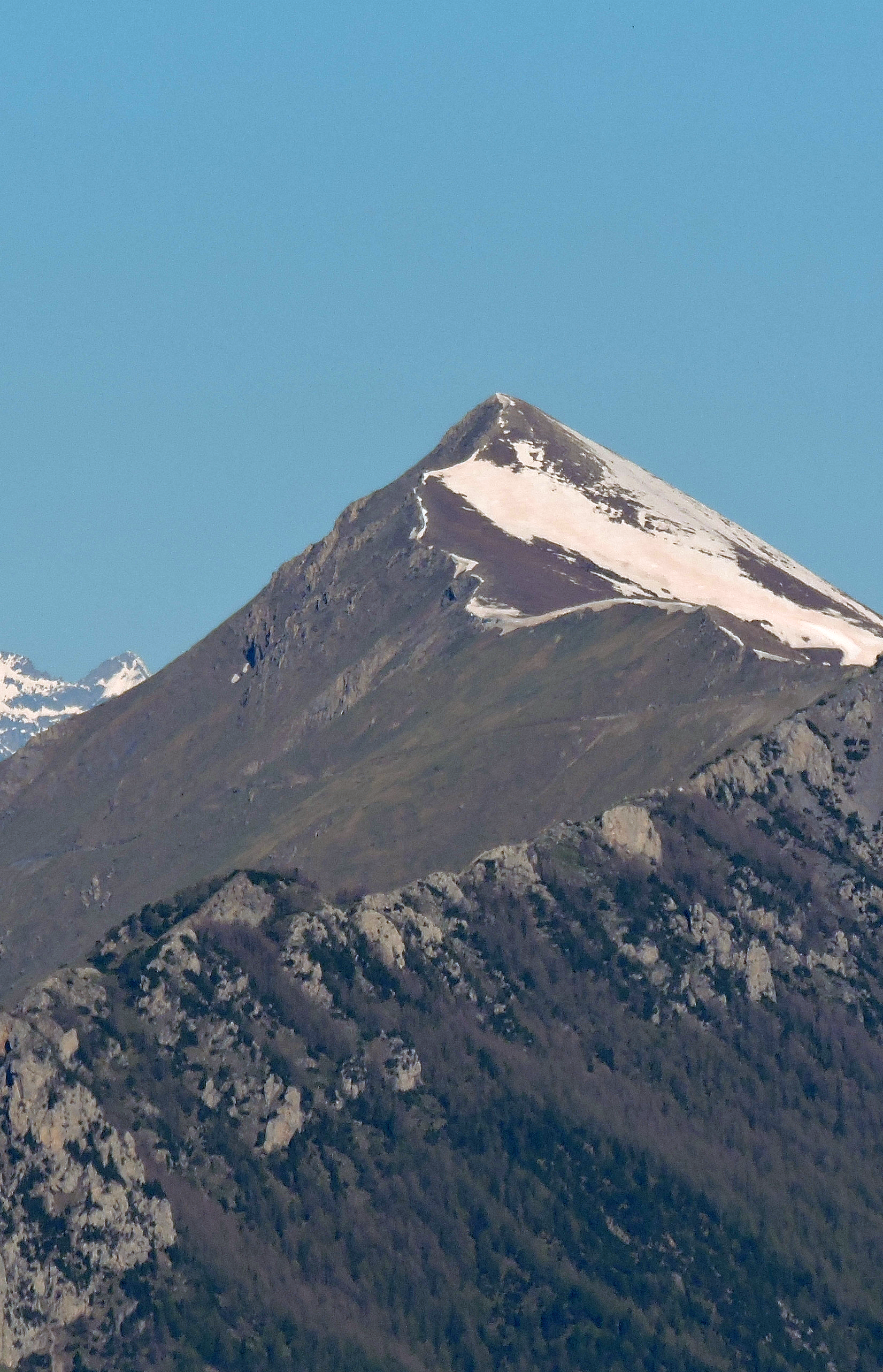 Cima Pertegà (Ligurian Alps) as seen from Monte della Guardia